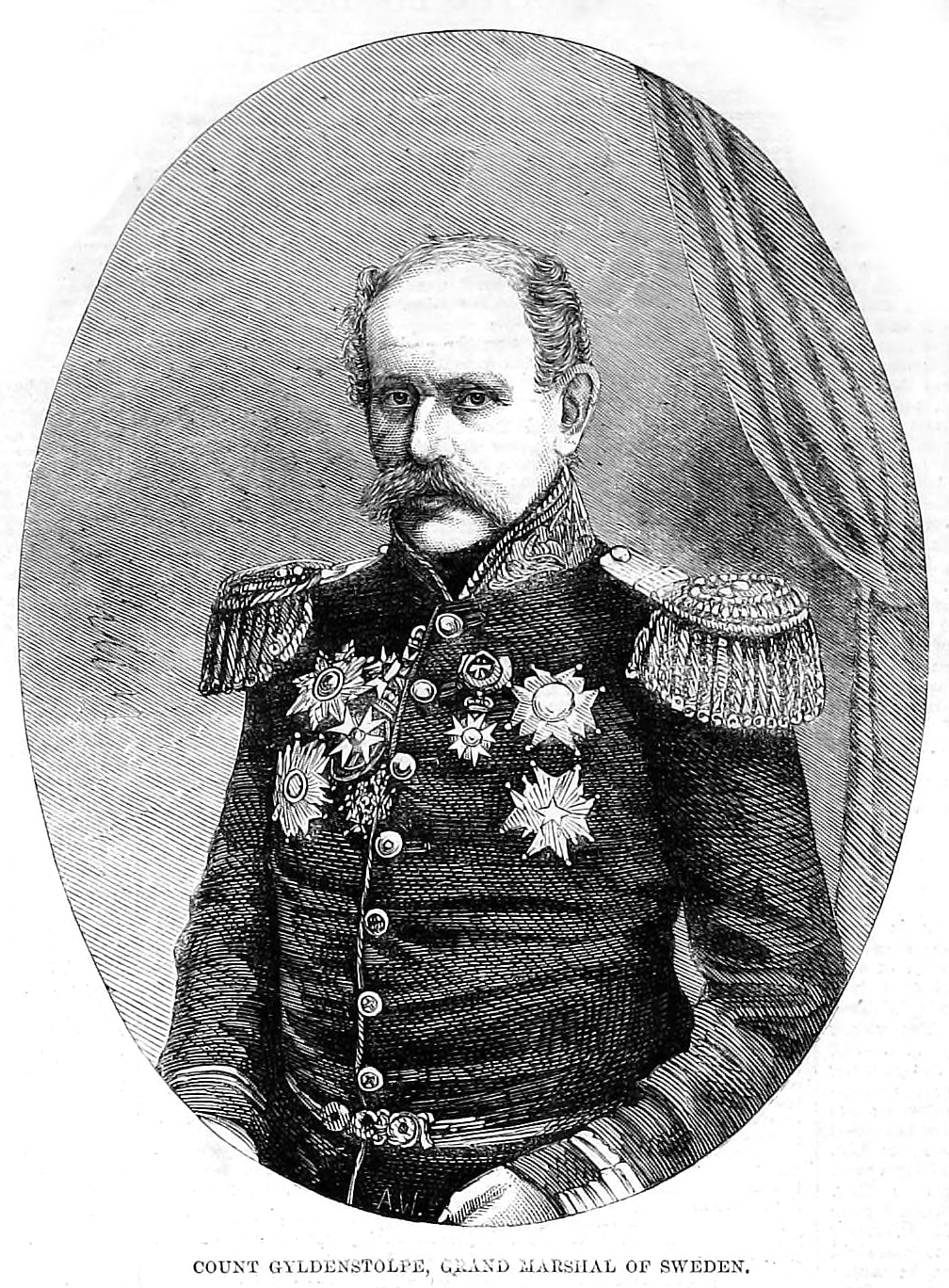 Count Gyldenstolpe [most probably = Nils Gyldenstolpe (1799–1864), Swedish count, officer, minister of war and "riksmarskalk" (marshall of the realm)]